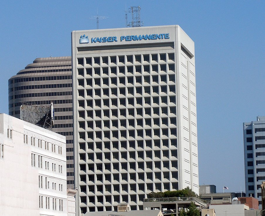 A office building with the Kaiser Permanente logo in downtown Oakland. As of 2009, Kaiser was the single largest user of office space in the City of Oakland. However, Kaiser's headquarters is in the Ordway Building, which does not bear the Kaiser logo (although Kaiser leases space on 21 of its 28 floors).